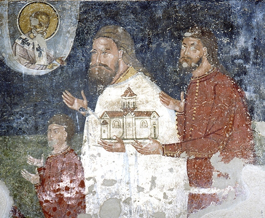 Fresco of ktitors (unknown priest with his son and brother) in church of sanit Nicolas in Ramaća village, Stragari municipality,near Kragujevac, Serbia.